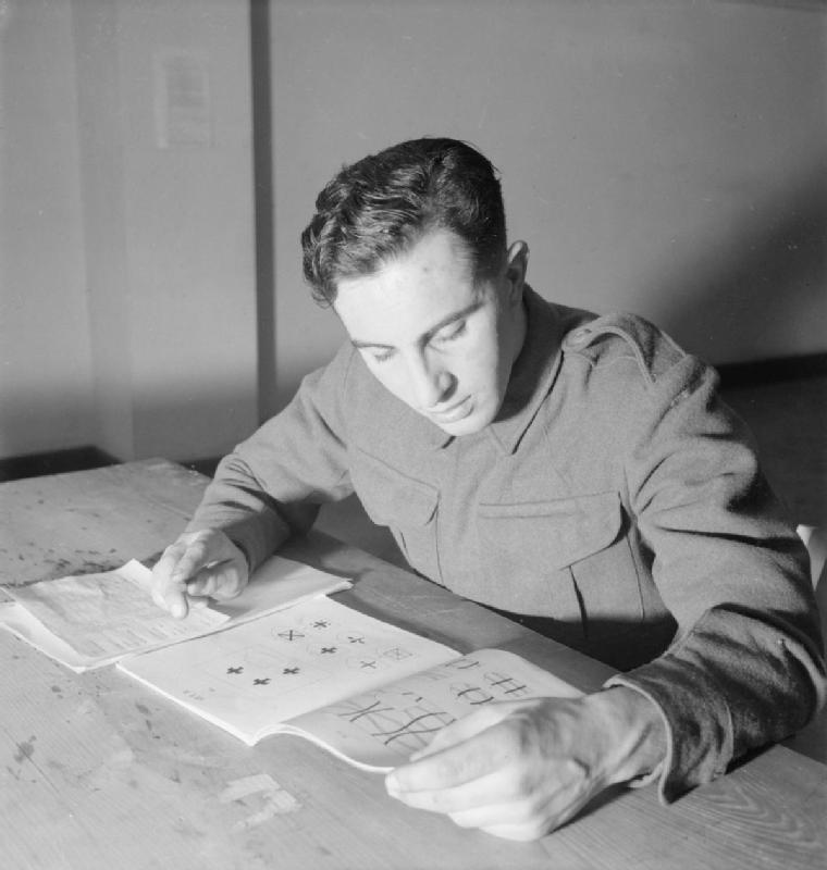 A Recruit Joins the British Army The new recruit, Bill Jones, undertakes a general intelligence test as part of his army selection board.